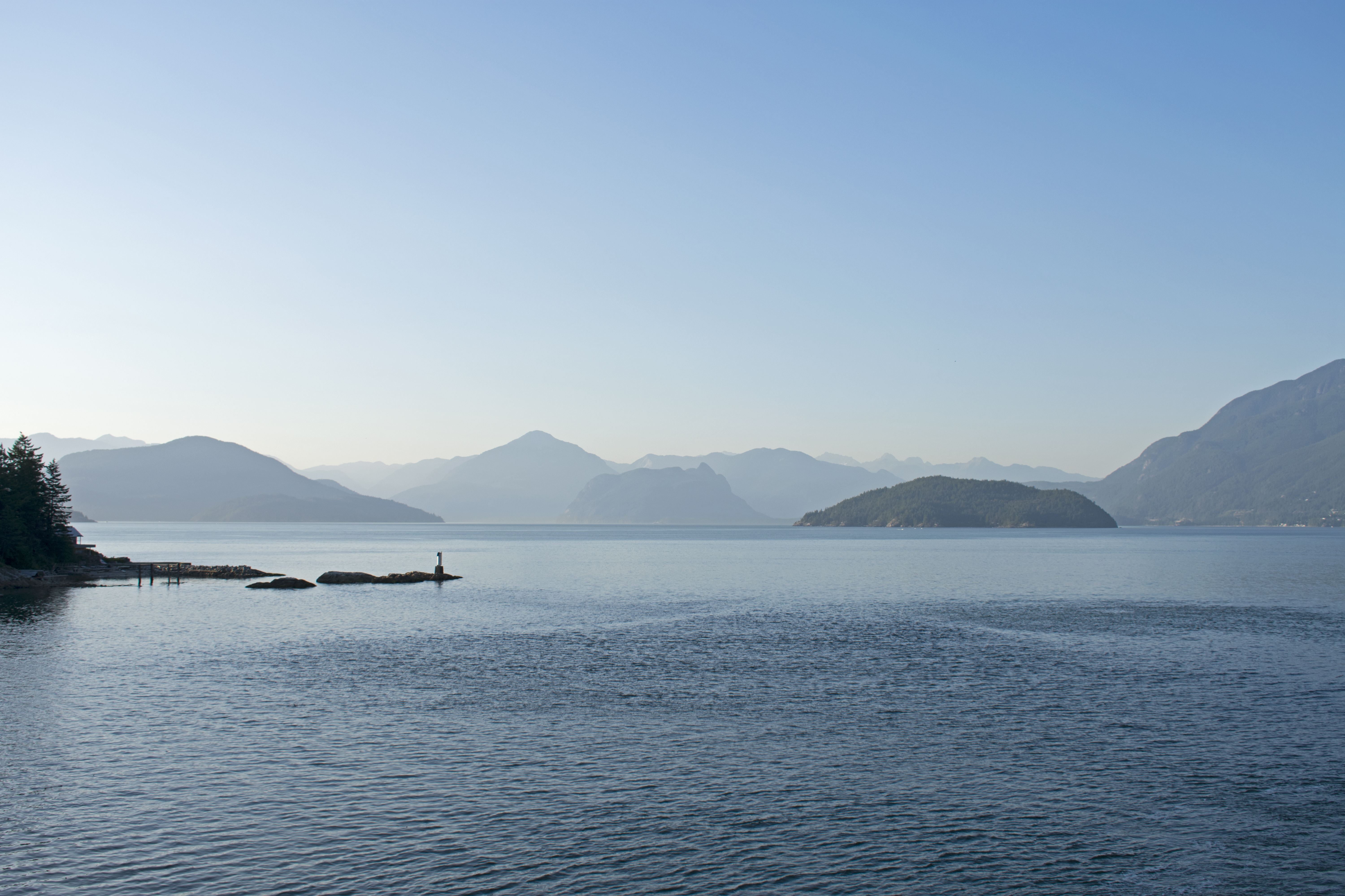 Howe Sound from Horseshoe Bay terminal, view to the northwest. Left close is Tyee point, right Bowyer Island, left Gambier Island, at the background mountains of the mainland around Mt. Wrattesley